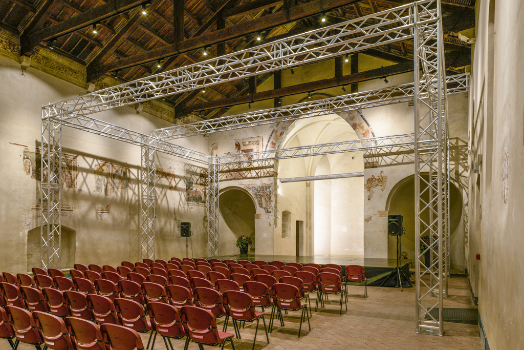 The inside of the former church of Saint Francis in Pordenone.